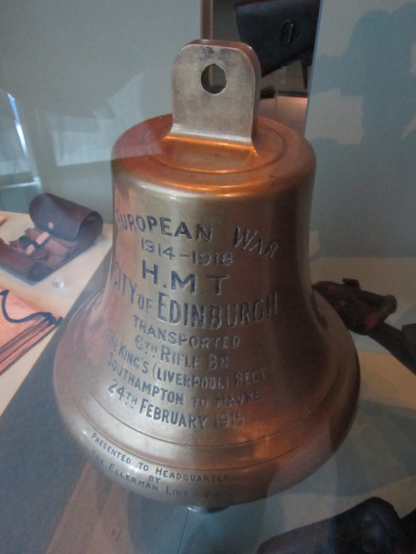 HMT City of Edinburgh at the Museum of Liverpool, England.The City of Edinburgh transported the Liverpool Rifles to France in 1915.